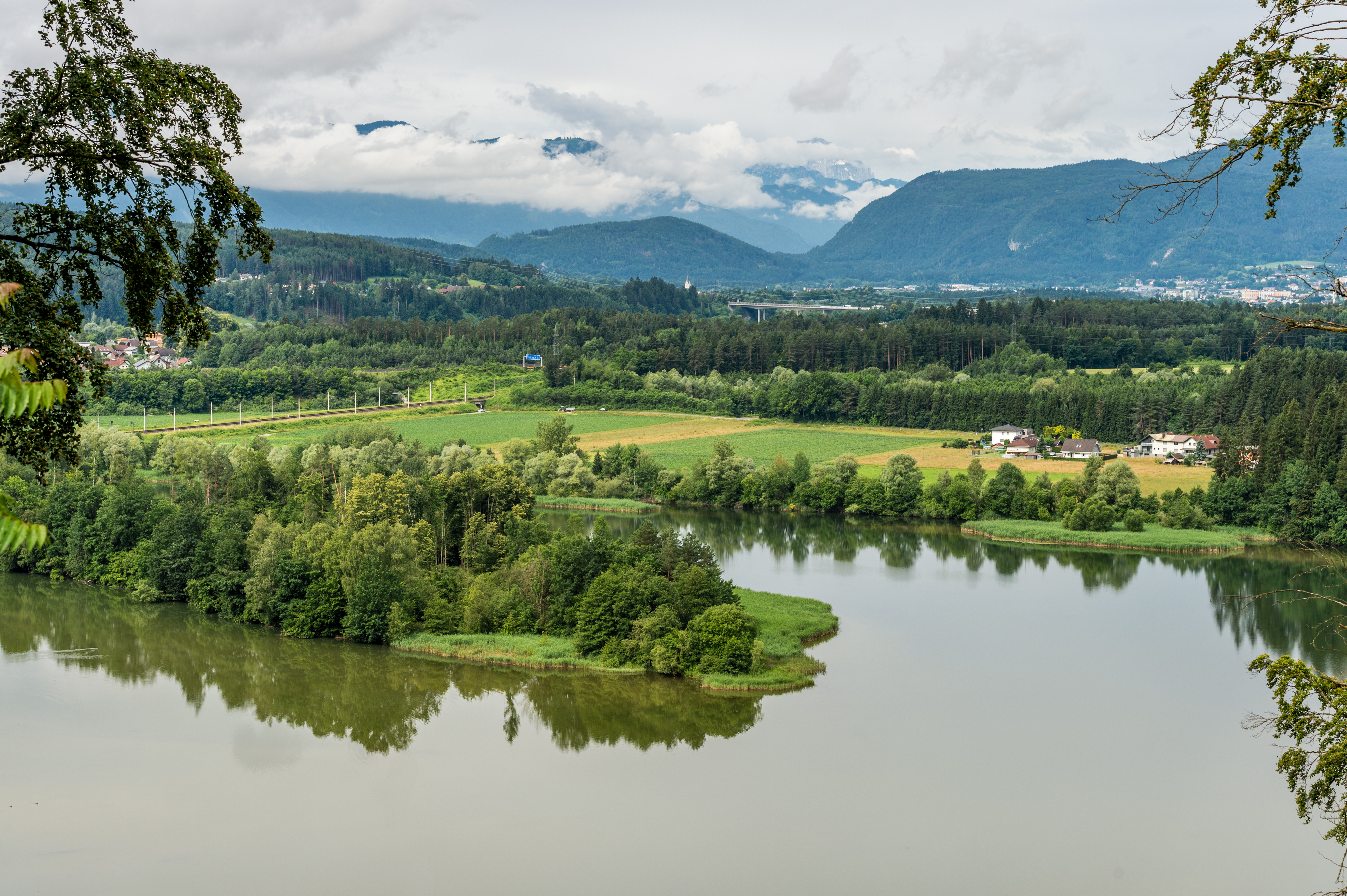 Spring mood on a sinuosity of the river Drava, municipality Wernberg, district Villach Land, Carinthia, Austria, EU